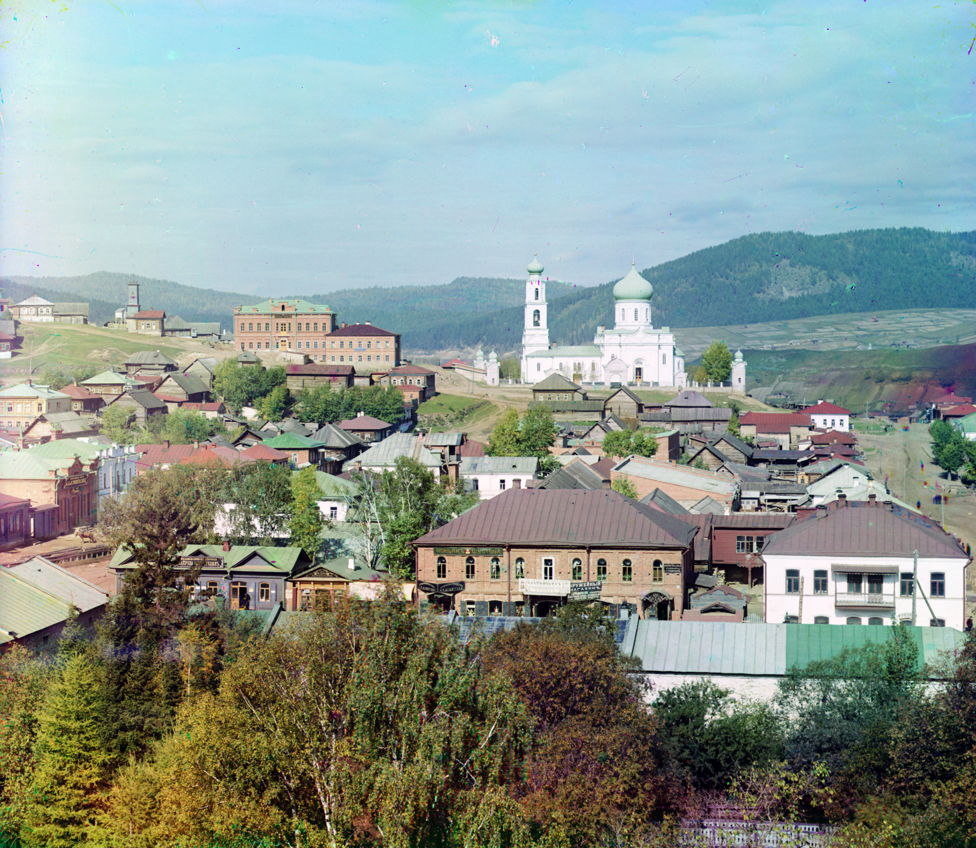 Northwest part of the town of Zlatoust